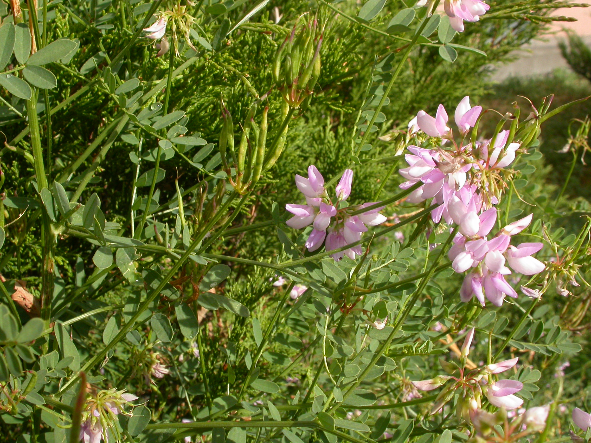 The inflorescences is a true umble, like that of Lotus and other genera of the Lotus tribe (Loteae).